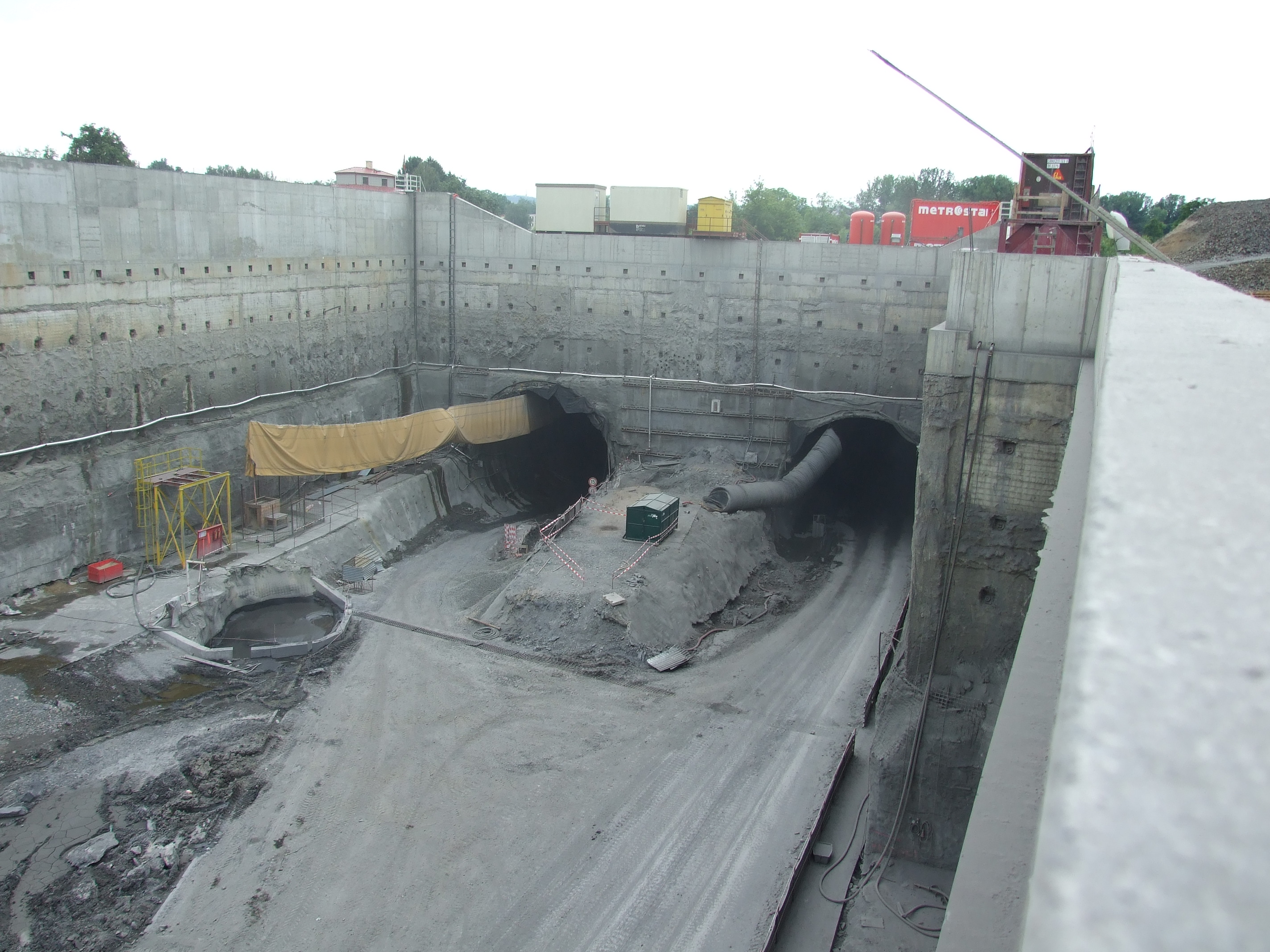 Construction of the northern portal of Blanka tunnel in Prague-Troja